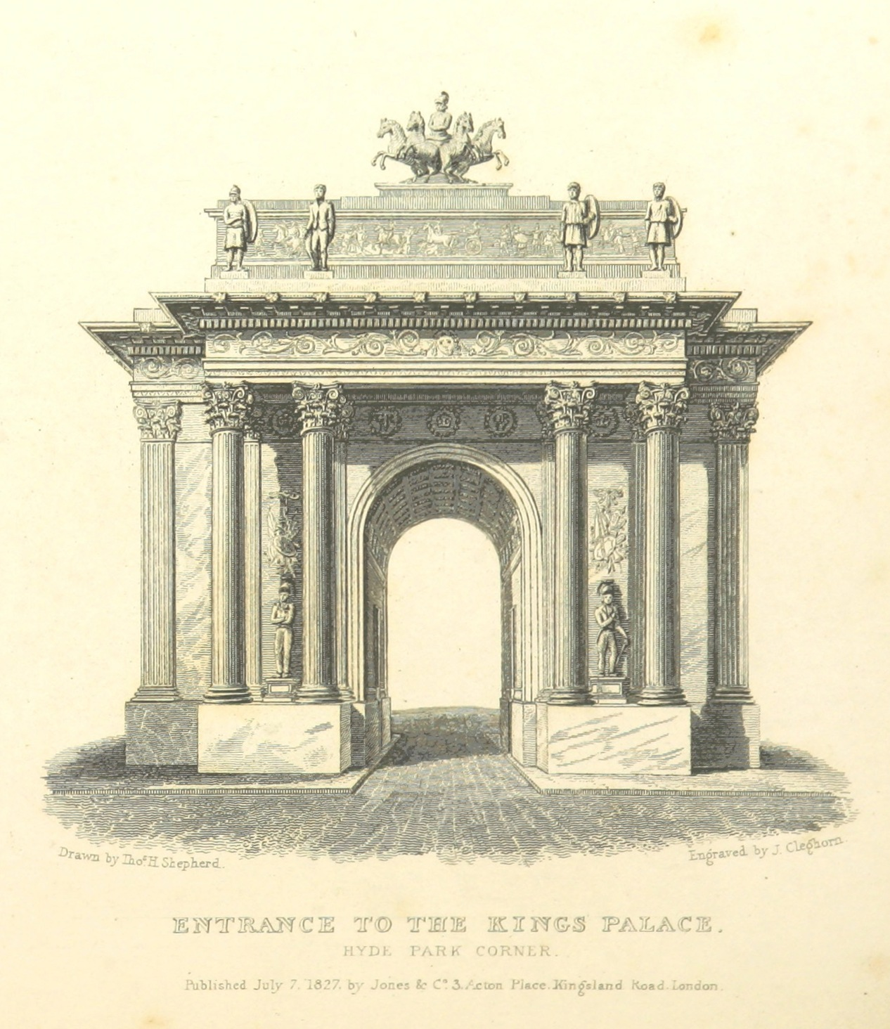 The originally intended design for the Wellington Arch at Hyde Park Corner by Decimus Burton, built from 1826–30 and so still under construction when the print was published. The engraving shows the full set of sculptures first intended to decorate the arch, including reliefs on the arch itself and statues of warriors above and between the columns. To save costs these were all ultimately omitted, to compensate for the overspending incurred in the refurbishment of Buckingham Palace being undertaken at the same time. A notable loss was the statue of the quadriga intended to top the monument, a Roman four-horse chariot similar to the statues on the top of the Brandenburg Gate in Berlin (1793) or the Arc de Triomphe du Carrousel in Paris (1806-08). Instead the space was eventually taken by a three times lifesize bronze equestrian statue of the Duke of Wellington, which stood there from 1846 to 1882. The present bronze statue by Adrian Jones of the Angel of Peace descending onto a quadriga was added in 1912. The arch was originally placed facing north-north-east directly opposite Burton's Ionic Screen entrance to Hyde Park (1824–25), as the entrance to a grand processional route to Buckingham Palace along Constitution Hill (the end of which was re-aligned to run adjacent to Grosvenor Place to approach the arch squarely). A road-widening scheme at Hyde Park Corner in 1882–83 required the arch to be moved east, losing its relationship to the Hyde Park screen, although it still stood at the head of Constitution Hill, with which it was now placed on axis, facing westwards. The road junction was again remodelled in 1961–62 with the opening of the Park Lane dual carriageway, creating the present large roundabout and Hyde Park Corner underpass, so that the arch now sits in the middle of a large traffic island, although the route through it to Constitution Hill is still sometimes used for ceremonial purposes.